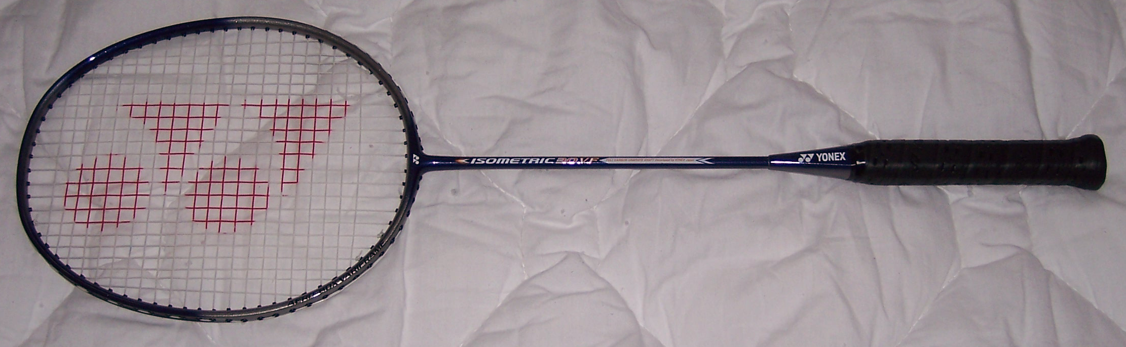 The badminton racquet Isometric 30 VF by Yonex.